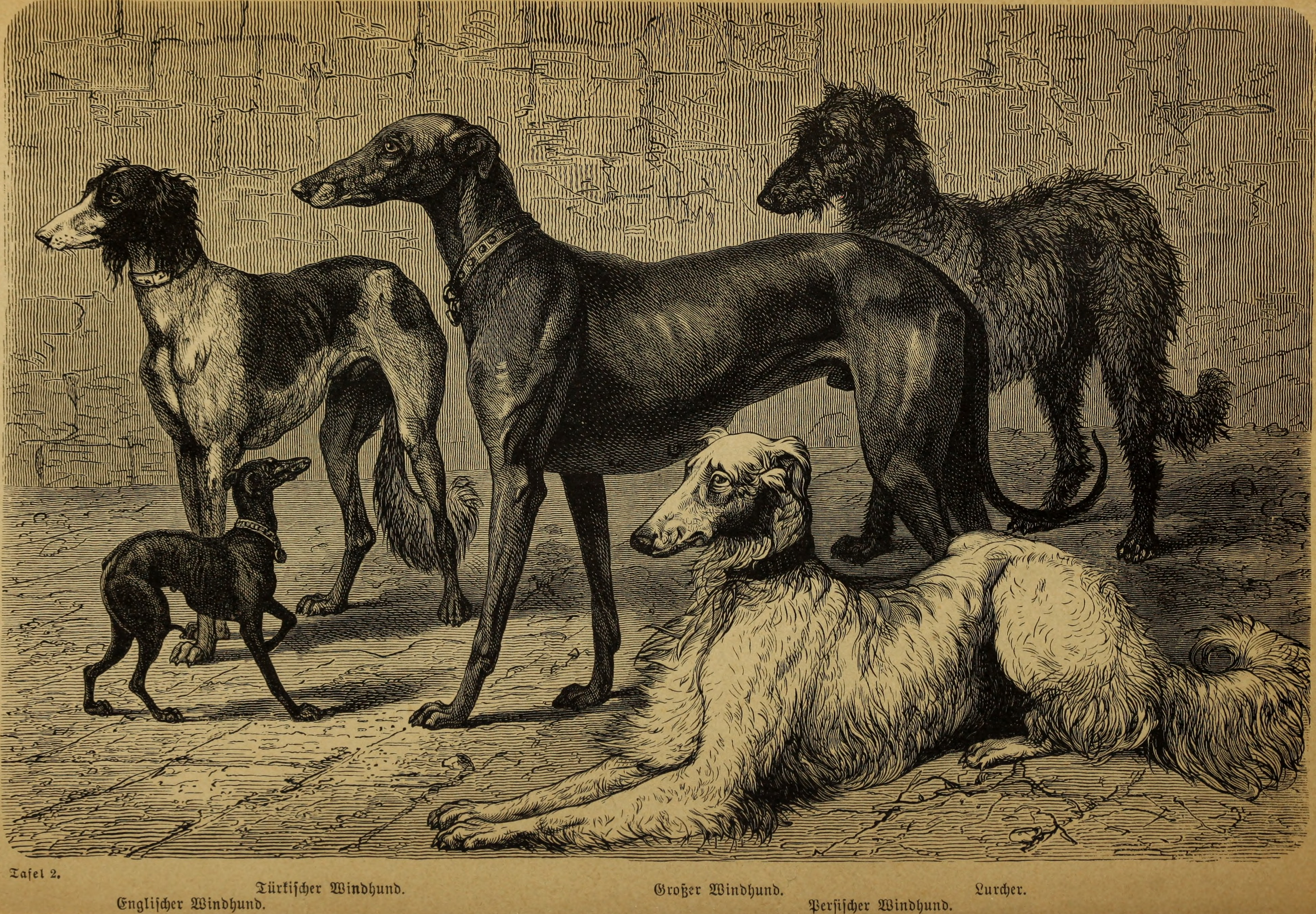 Title: Der Hund und seine Racen. Naturgeschichte des zahmen Hundes, seiner Formen, Racen und Kreuzungen Year: 1876 (1870s) Authors: Fitzinger, Leopold Joseph Franz Johann, 1802-1884 Subjects: Dogs; Dog breeds Publisher: Tübingen, Verlag der H. Laupp'schen Buchhandlung Text Appearing Before Image: ' Text Appearing After Image: '